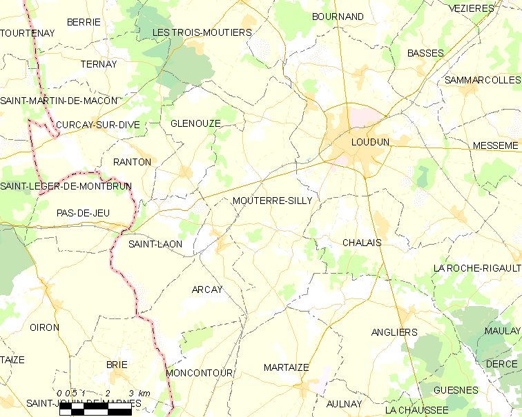 Map of French municipality Mouterre-Silly